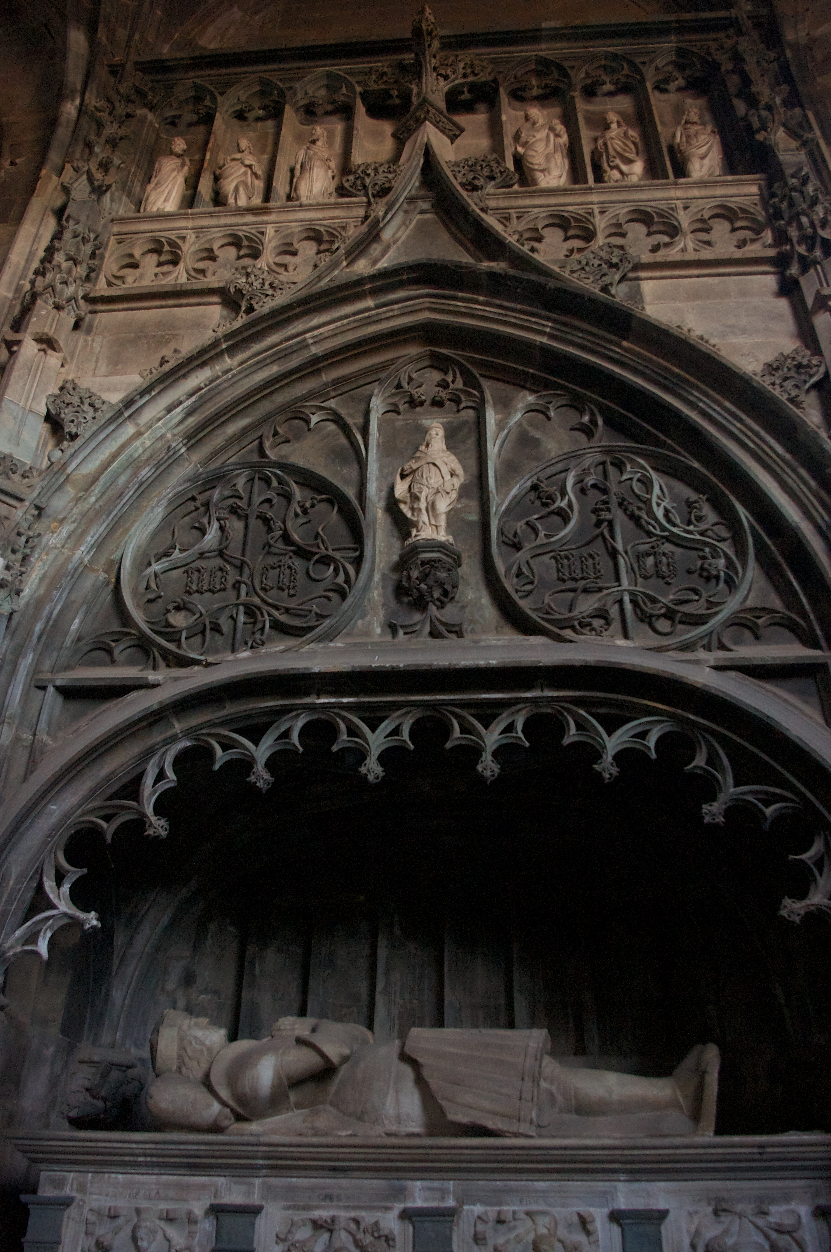 Choir, and sarcophagus of Ludovic of Saluzzo (1474 - 1504)